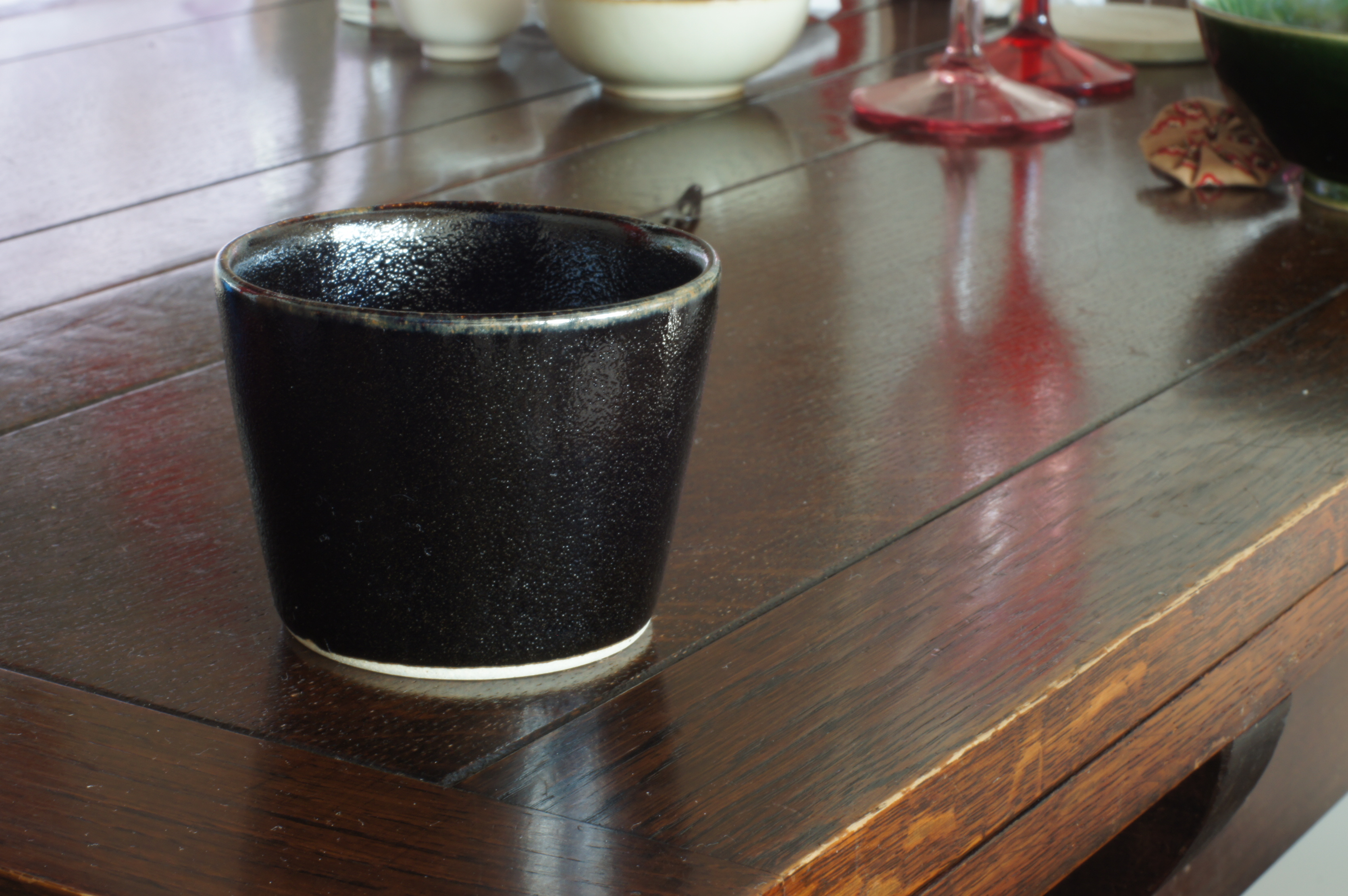 NEX5 + new FD 50mm f1.4